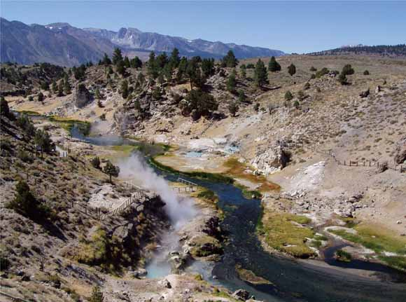 Hot Creek with hot springs, in the Long Valley Caldera of the Eastern Sierra near Mammoth Lakes in Mono County, eastern California.